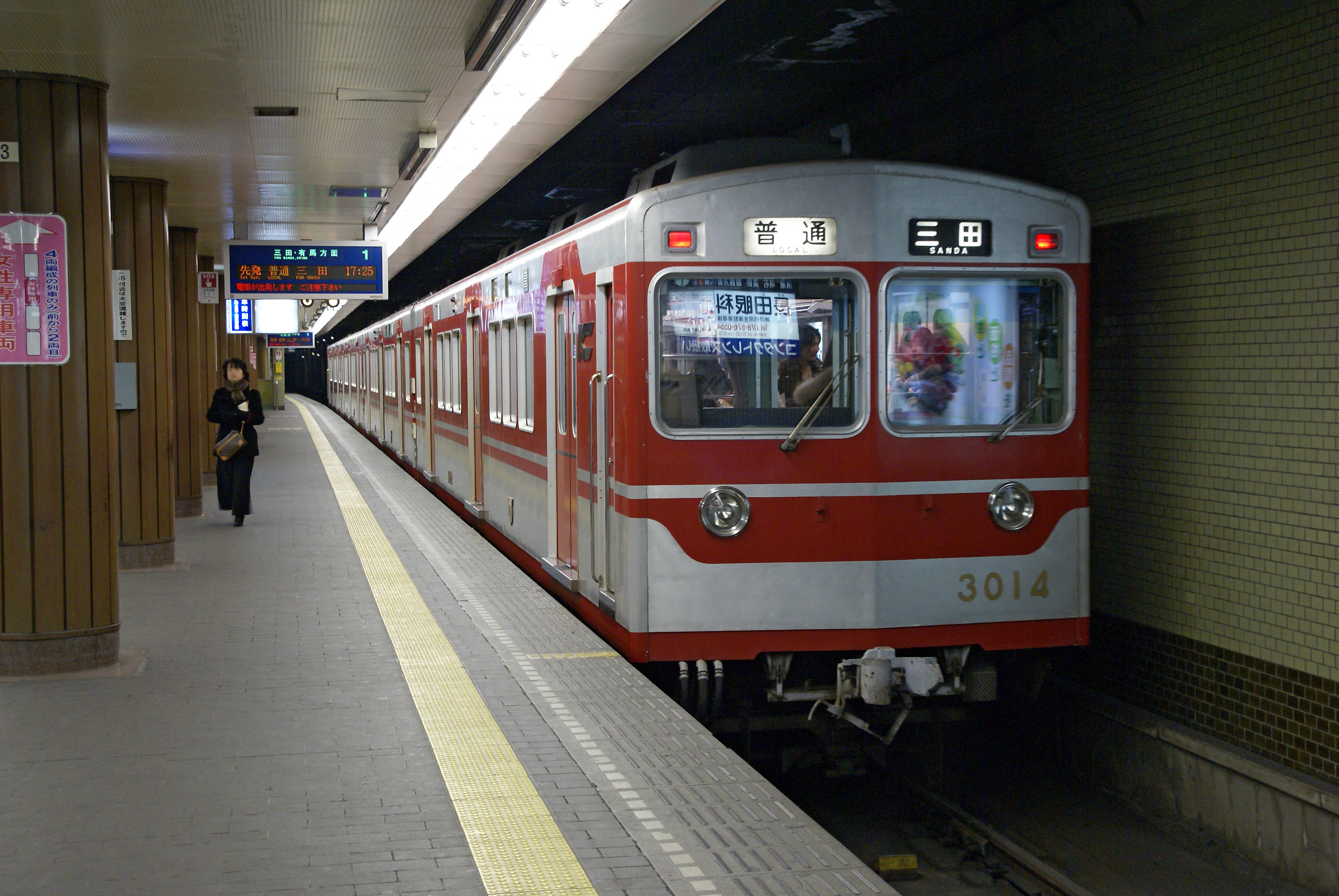 Shinkaichi Station in Kobe, Hyogo prefecture, Japan